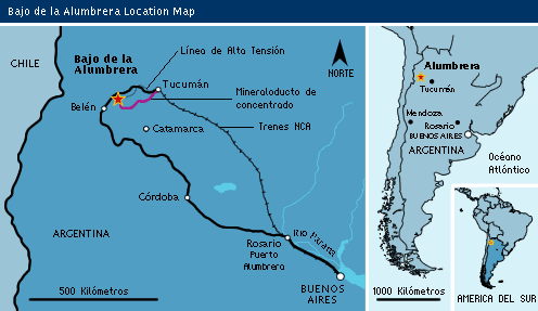 MAPA DEL BAJO DE LA ALUMBRERA